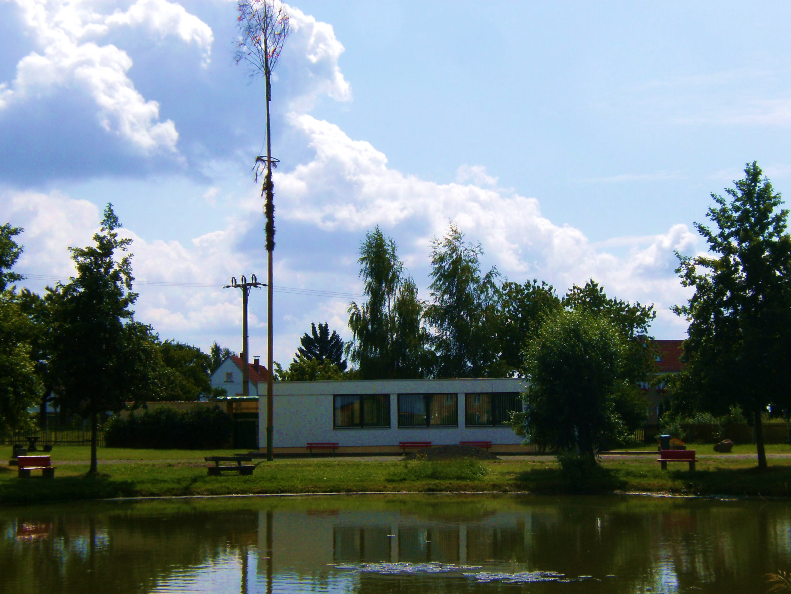 Gera Weißig, village lake and club building.